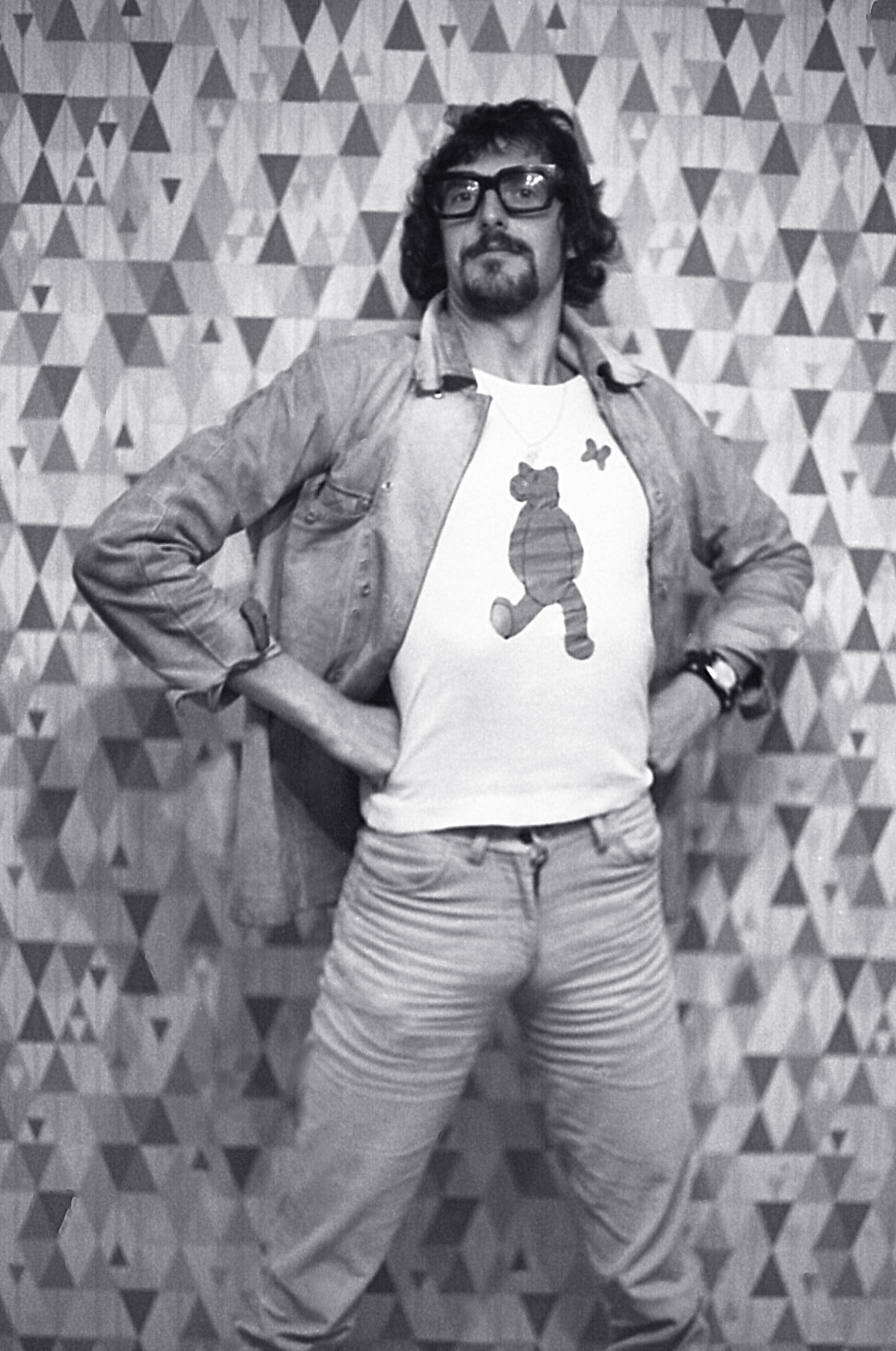 Jonathan King taken in London.